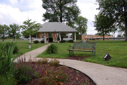 City Park in Fontana, Kansas